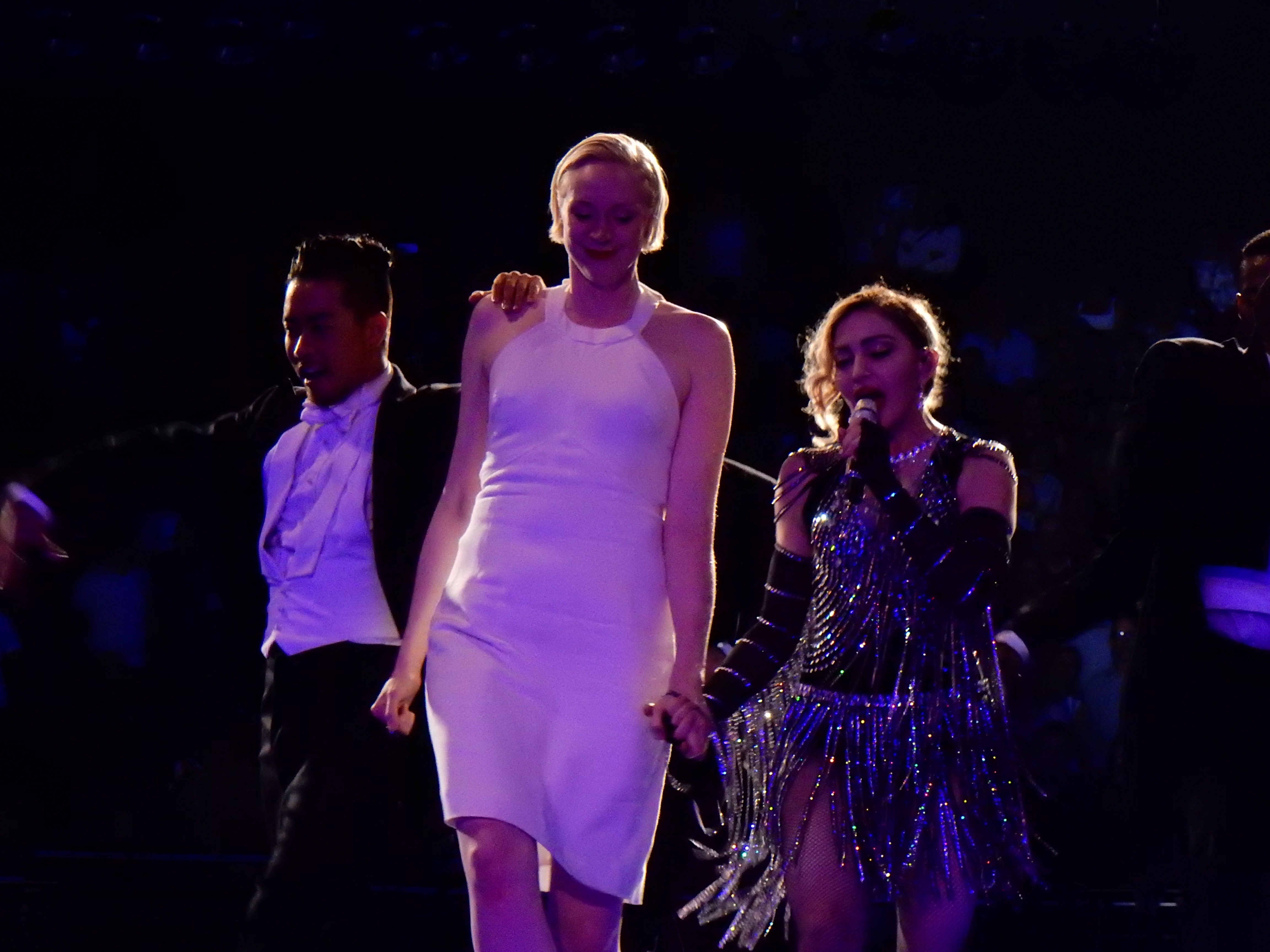 Rebel Heart Tour 2016 - Sydney 1